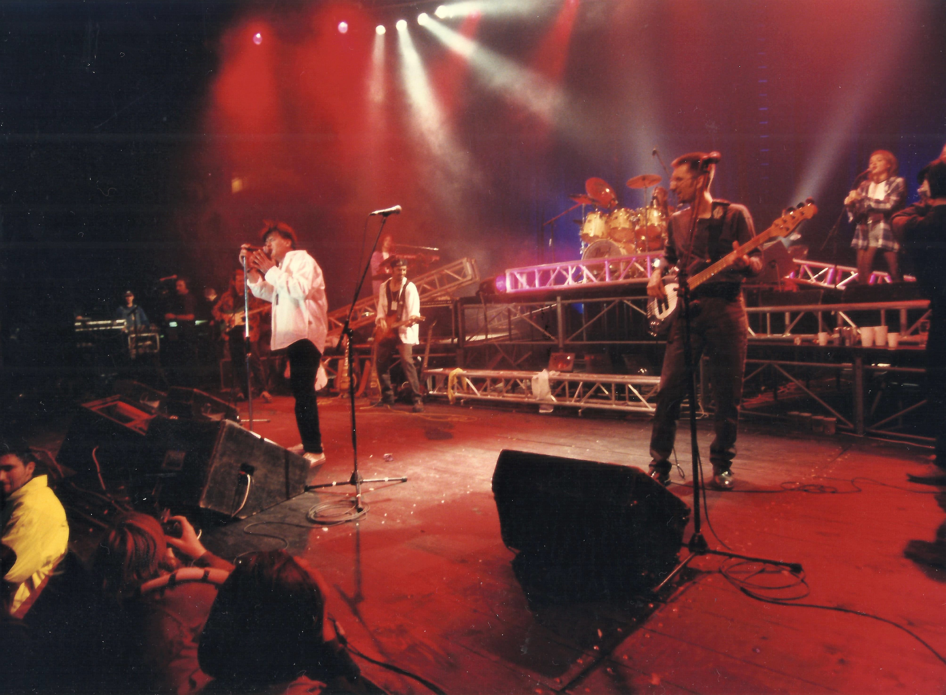 Kresimir Kastelan and Crvena Jabuka bend in Zagreb concert (Dom Sportova 1996)